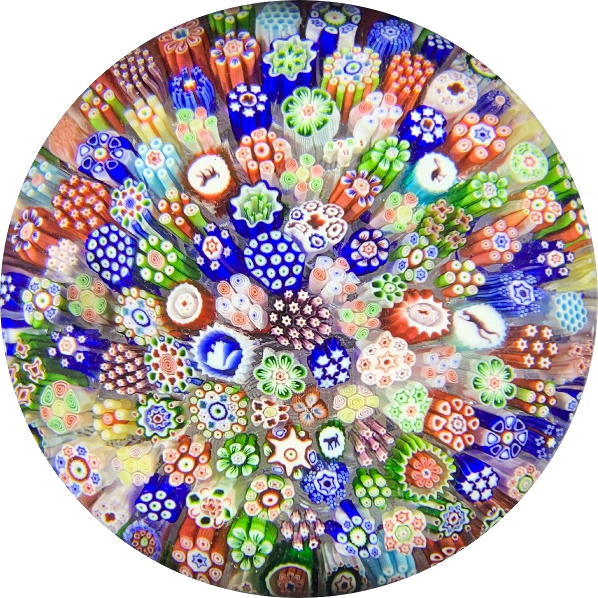 Antique Baccarat Closepack Millefiori Paperweight with Animal Silhouette Canes, Signed & Dated (internally) with a "B1848" Signature/Date Cane. This is a handmade decorative art object made completely of solid glass.